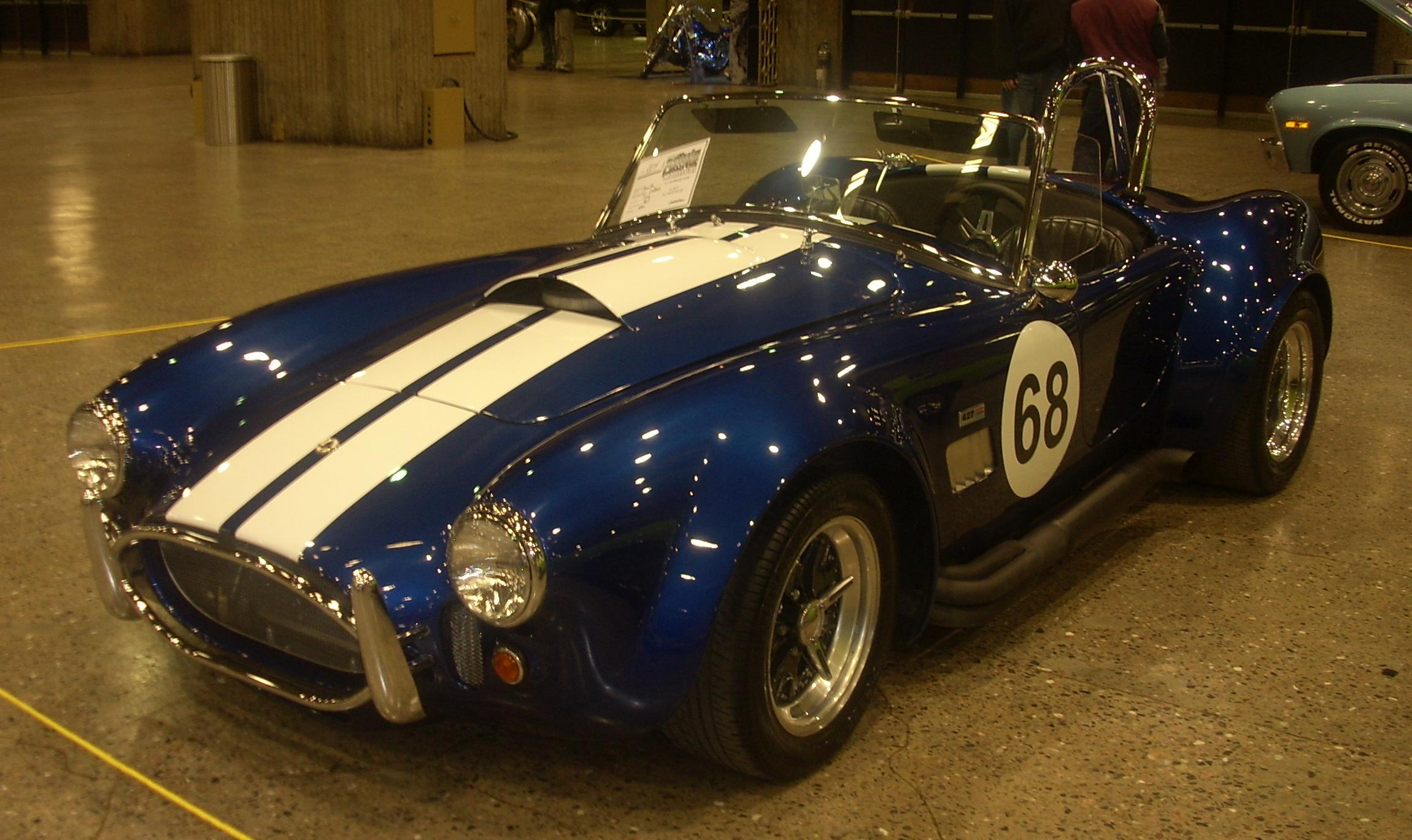 AC Shelby Cobra photographed at Auto classique Montréal 2008.